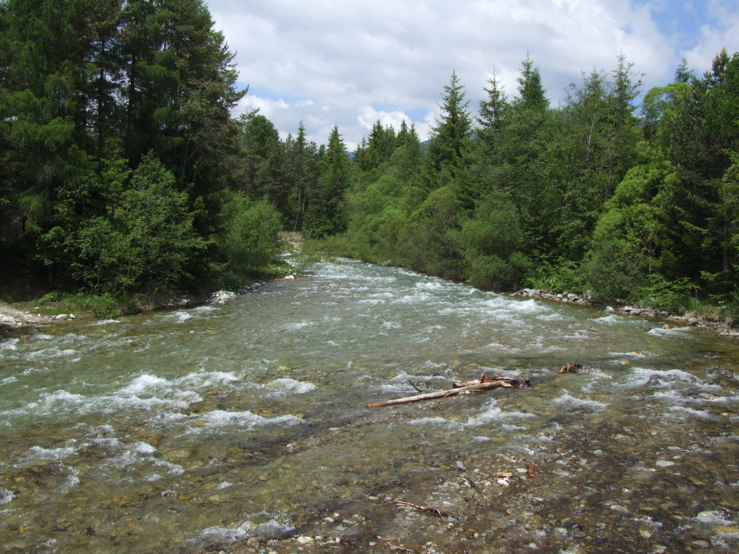 Stream Račková in Pribylina, Slovakia Template:Sj